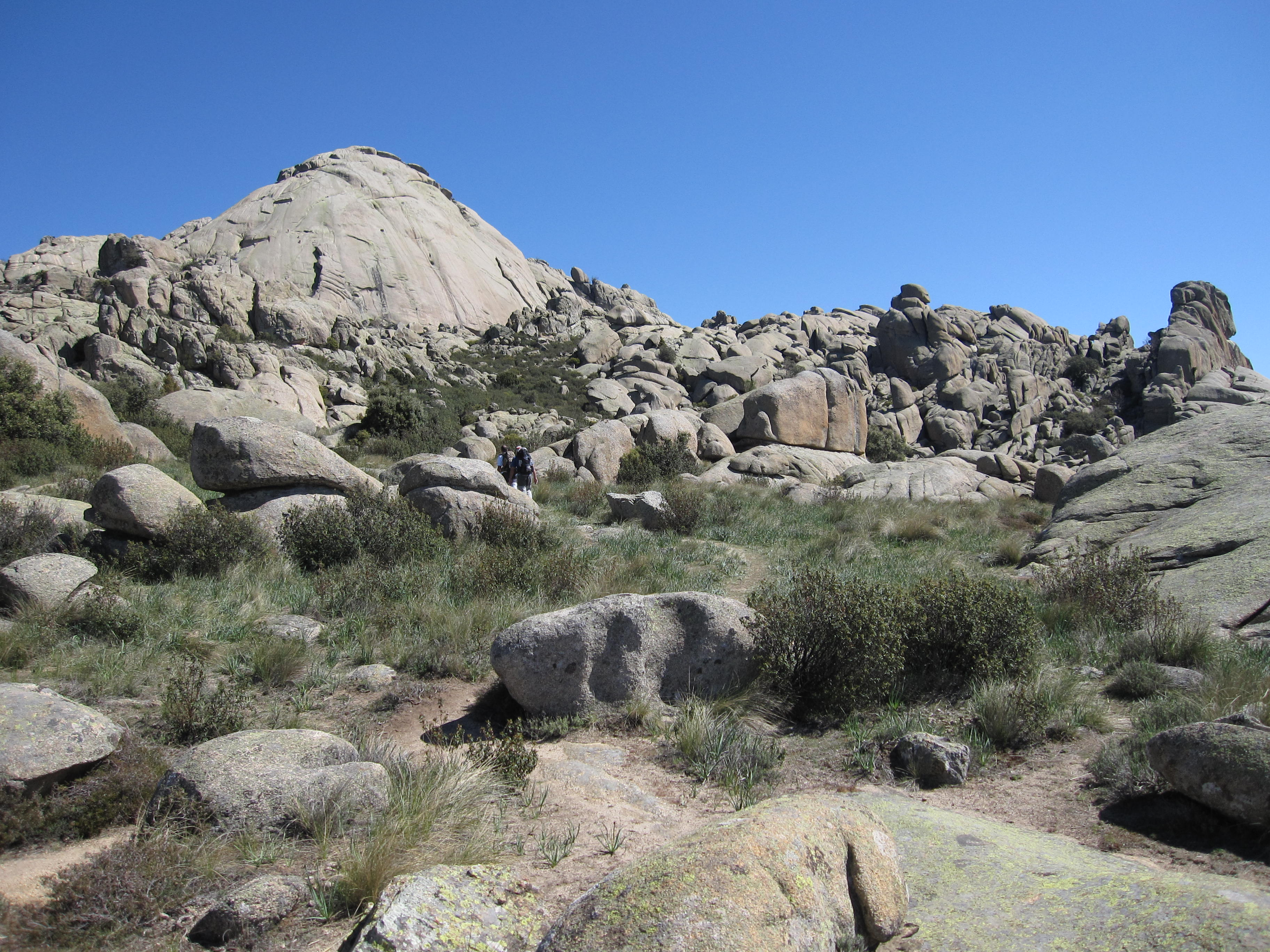 South face of El Yelmo, La Pedriza (Guadarrama mountain range, central Spain).